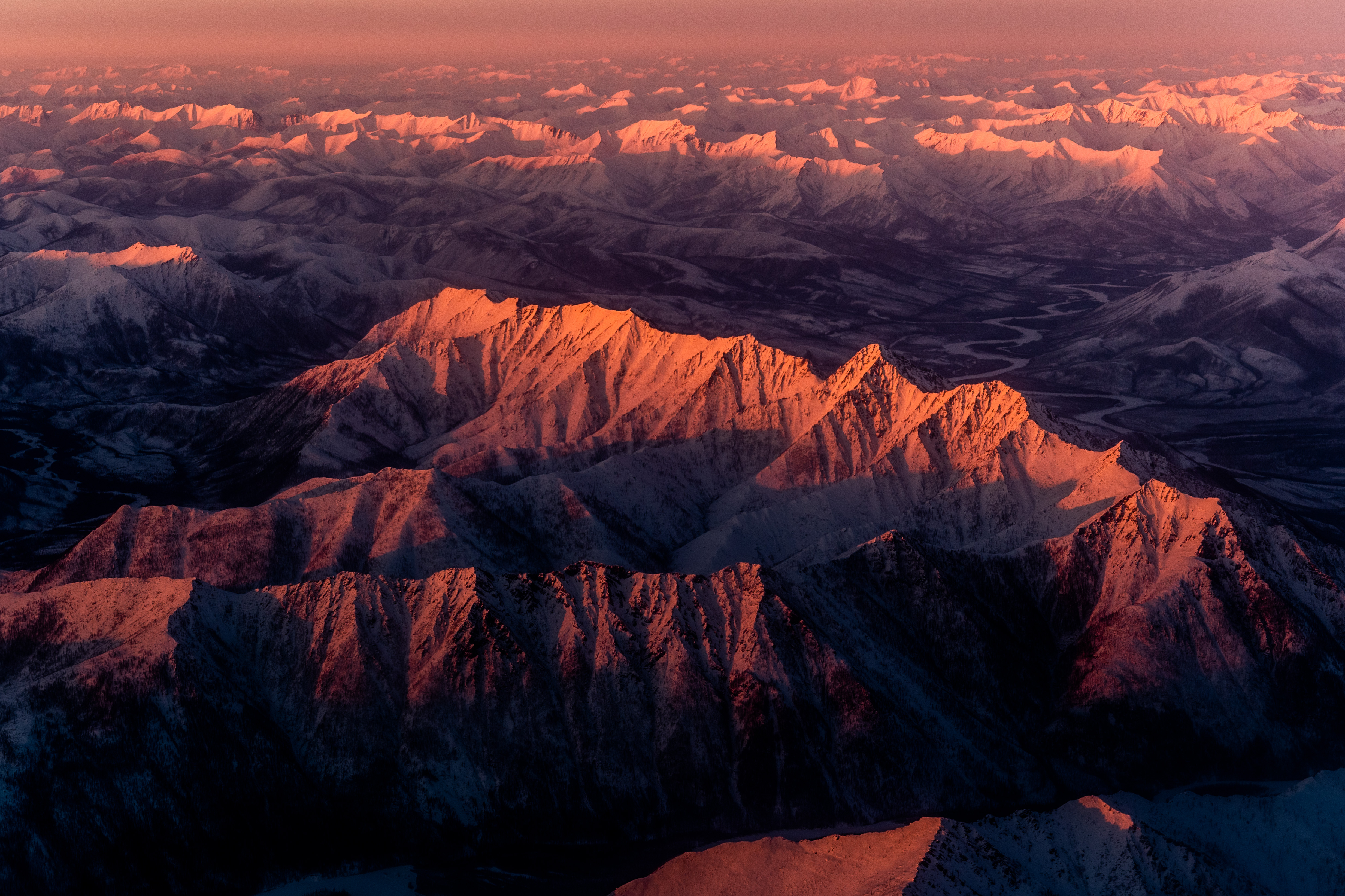 Verkhoyansk Range, Republic of Sakha (Yakutia)